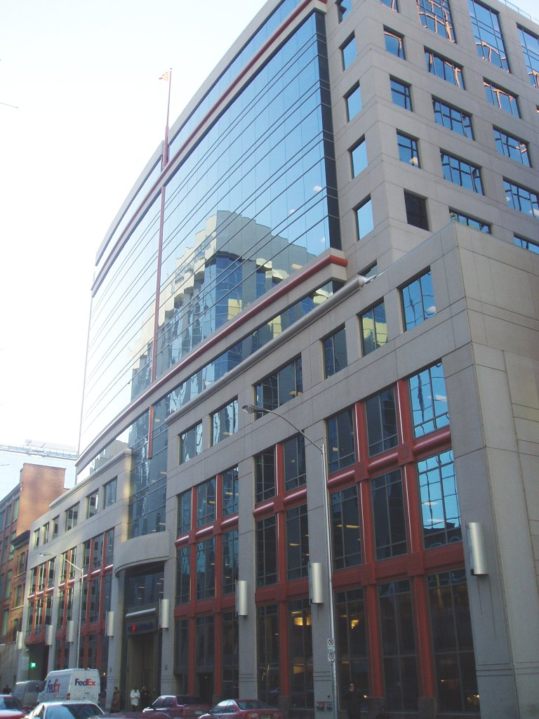 Category:Canadian Broadcasting Corporation